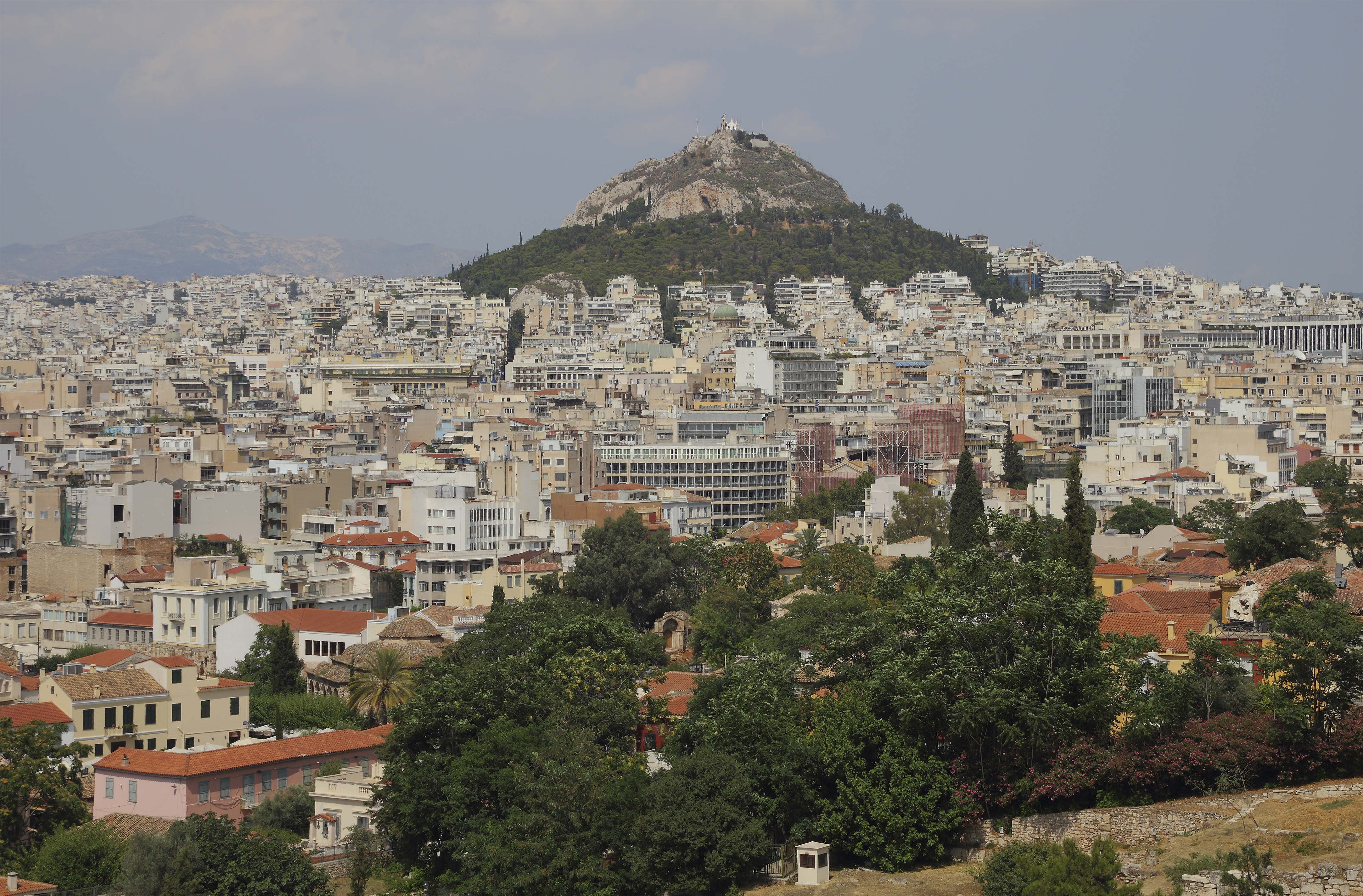 View of Athens (Attica, Greece) from Acropolis hill